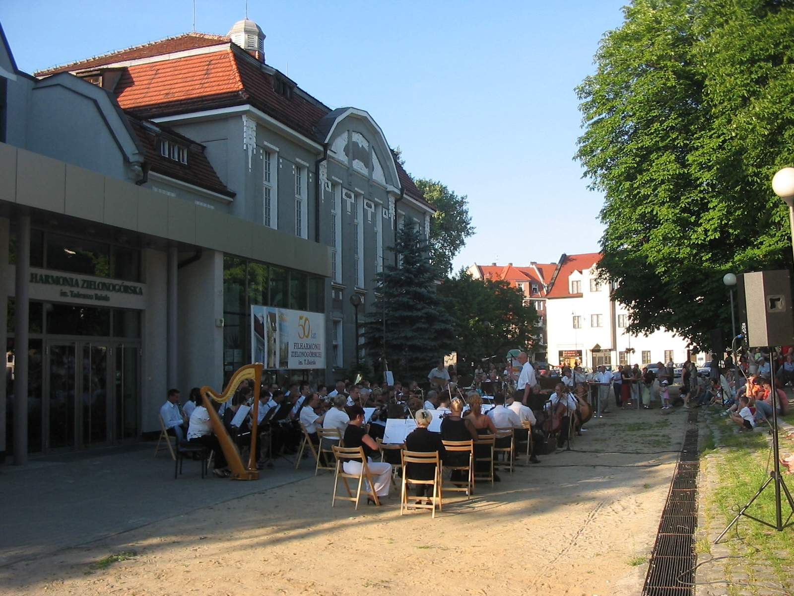 An outdoor concert of the Zielona Góra Philharmonic Orchestra celebrating its 50th anniversary Author: Mohylek 14:59, 2 November 2006 (UTC)